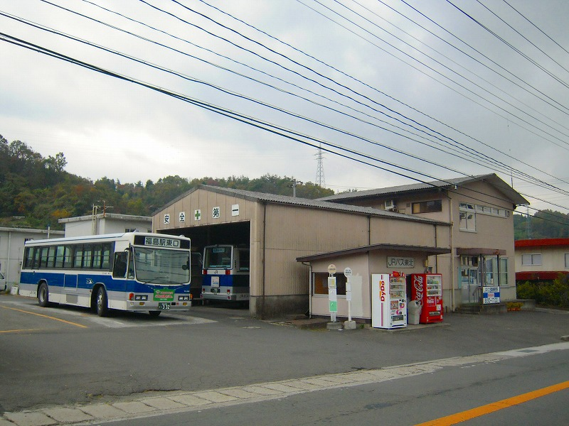 JR bus Tohoku Kawamata garage (Kawamata town,Fukushima,Japan)